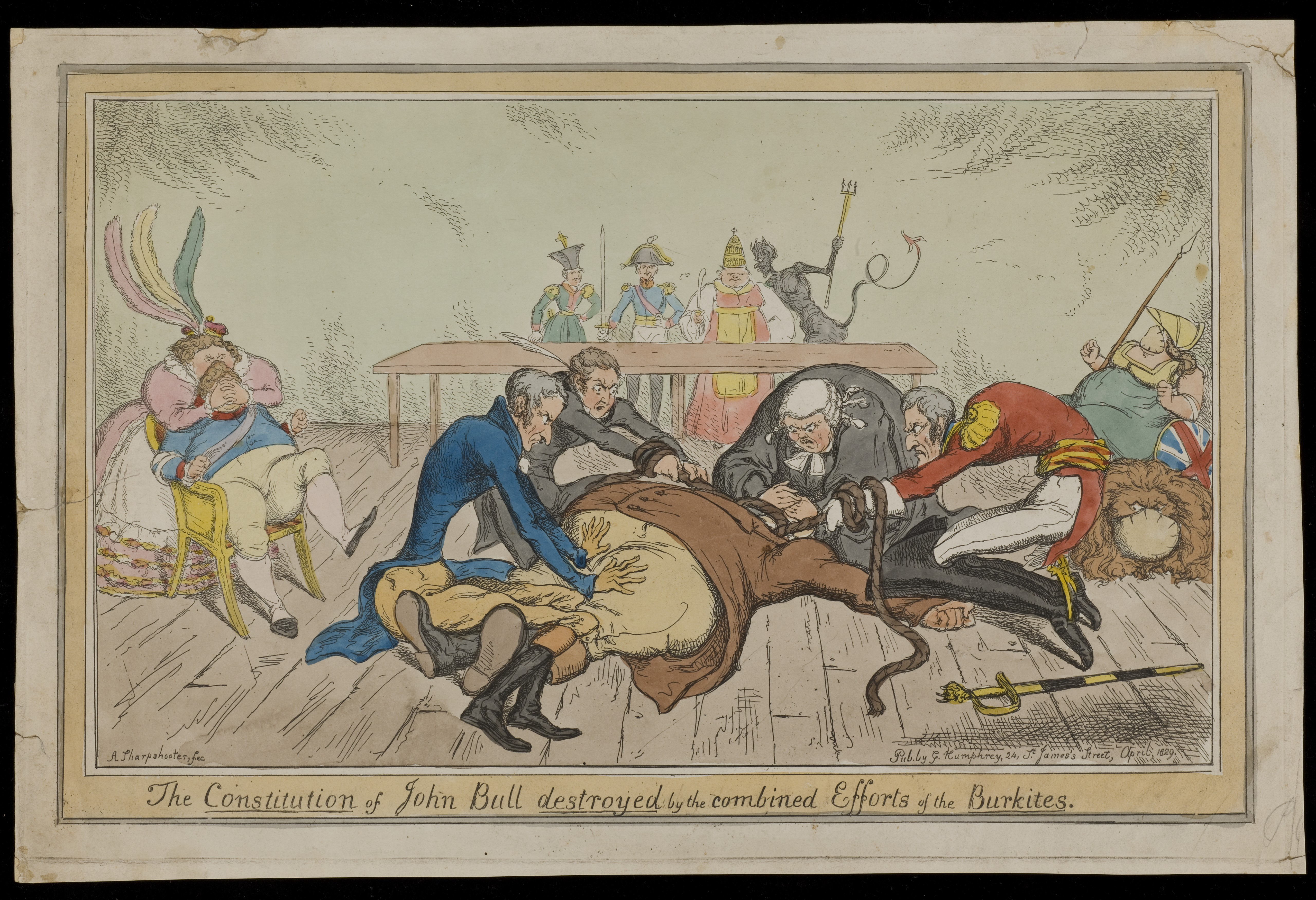 Burdett, Peel, O'Connell and Wellington in the roles of the body-snatchers Burke and Hare, suffocating John Bull with a rope; representing the extinguishing by Wellington and Peel of the constitution of 1688 by Catholic Emancipation. Iconographic Collections Keywords: Elizabeth Conyngham Conyngham; William Hare; Robert Peel; name IV,; Francis Burdett; A. Sharpshooter; Arthur Wellesley Wellington; Daniel O'Connell; William Burke